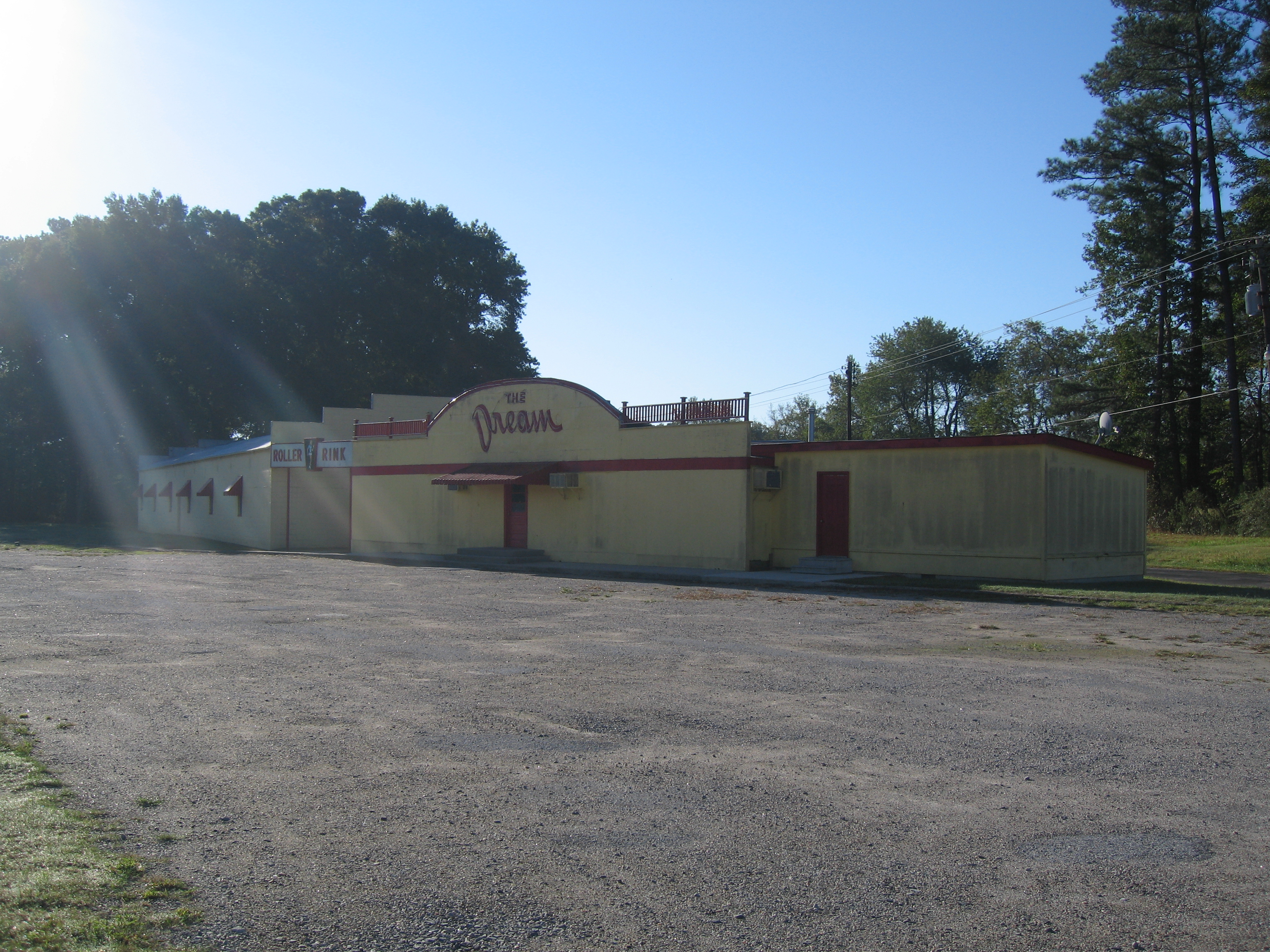 Oblique view of the front of the Dream Roller Rink, 32438 Chincoteague Road, New Church, Virginia.